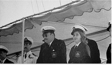 Farouk I of Egypt with Queen Nariman during their honeymoon in Italy